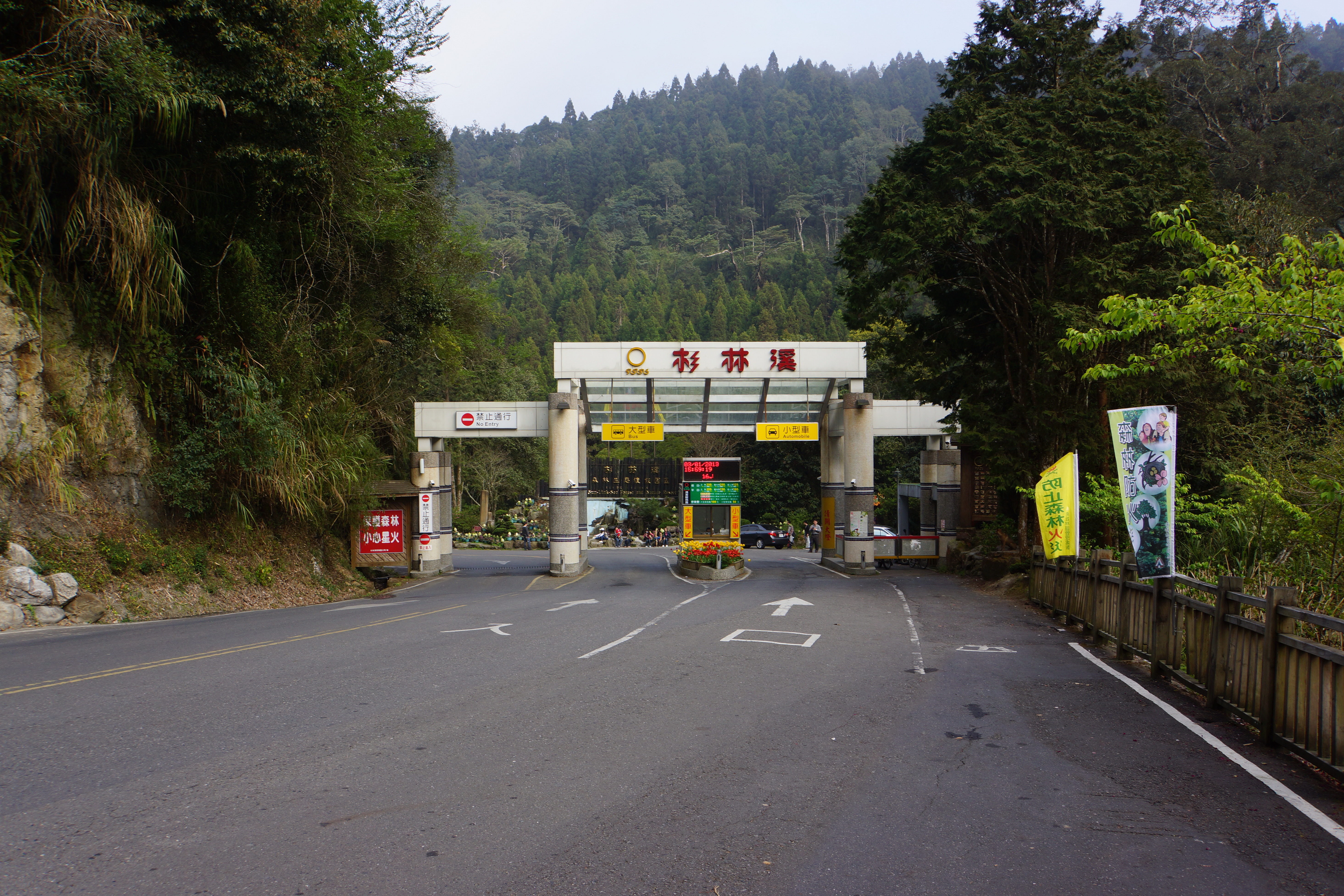 杉林溪 Sun-Link-Sea Forest and Nature Resort